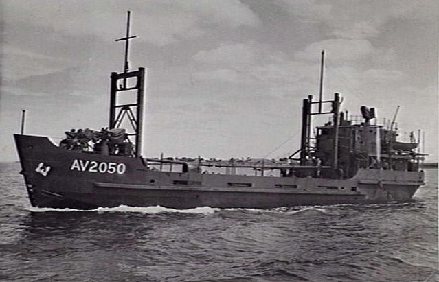 Australian Army 120 foot lighter AV 2050